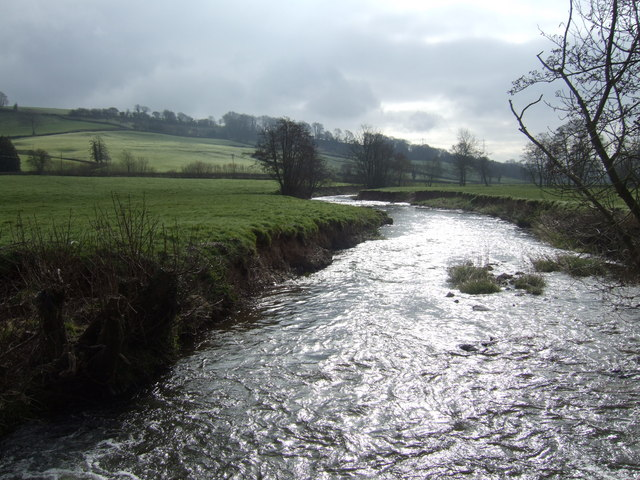 River Yarty - flowing downstream Into the sun!